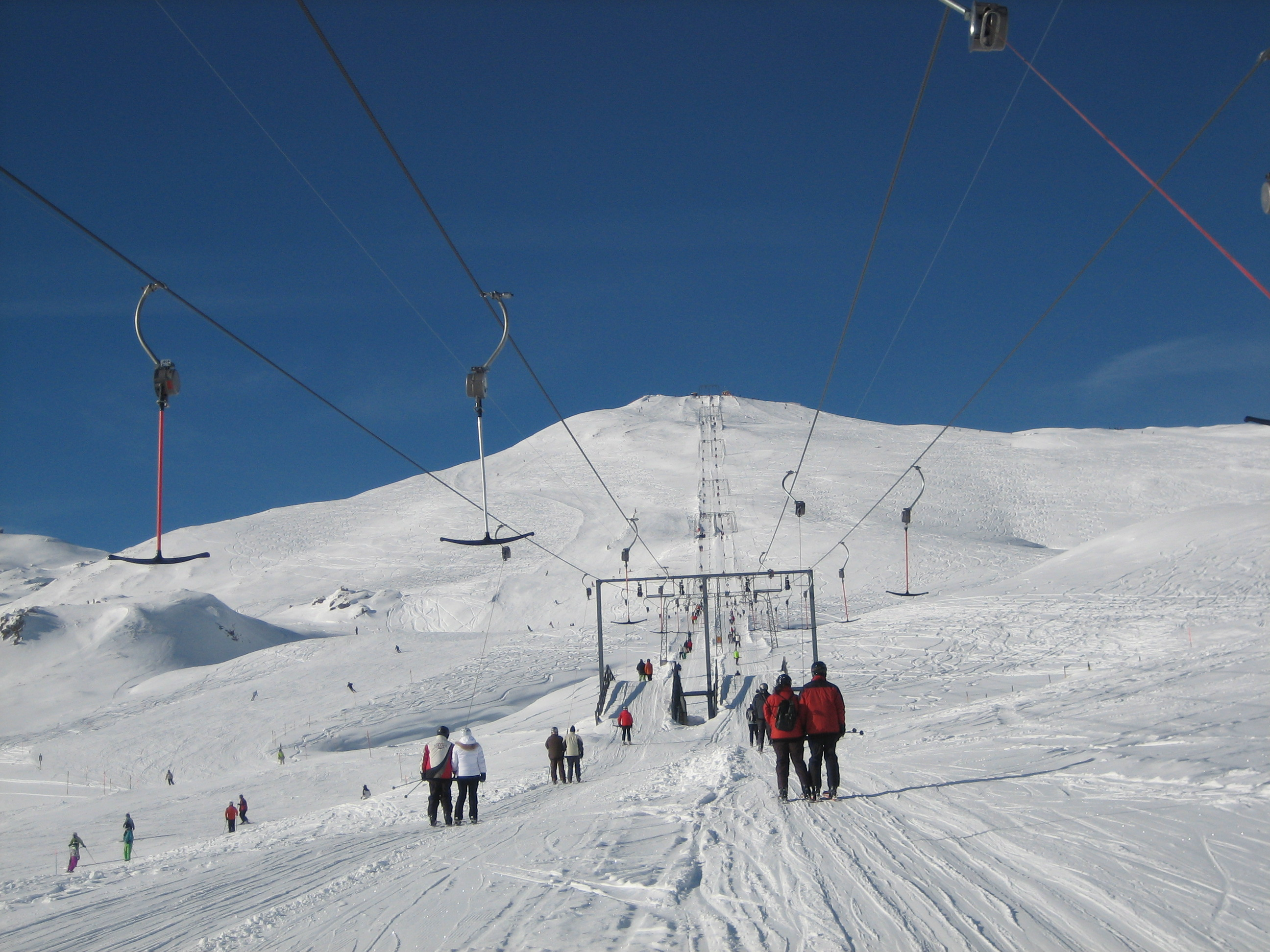 Piz Cartas from ski lift Cartas, Riom-Parsonz, Grison, Switzerland